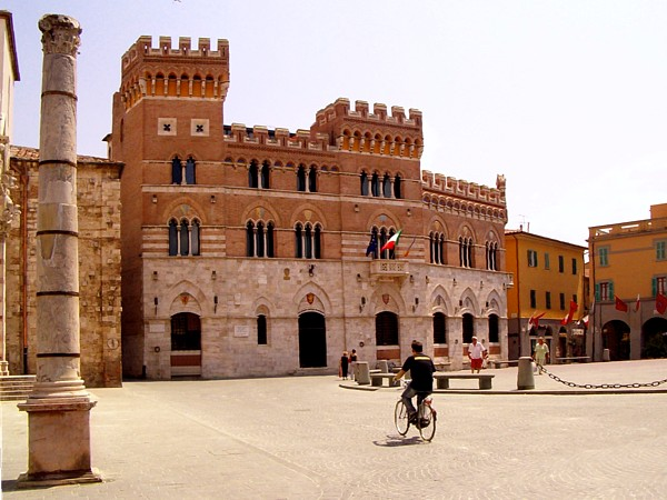 Grosseto, Piazza Dante Picture taken by user:Idéfix, july 2003